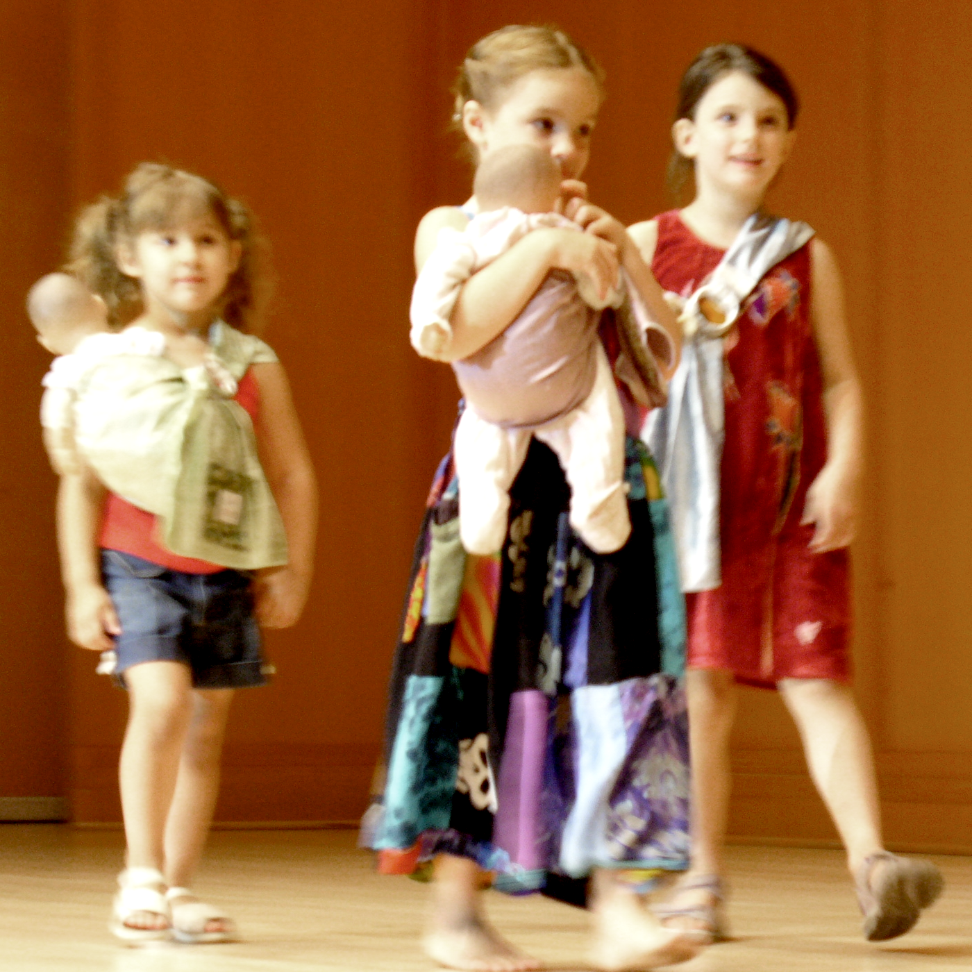 Three sisters wearing their dolls in decorative play ring slings. These slings are designed specifically for carrying dolls, and would not be used to carry children. The girls are walking across the stage at a babywearing fashion show.